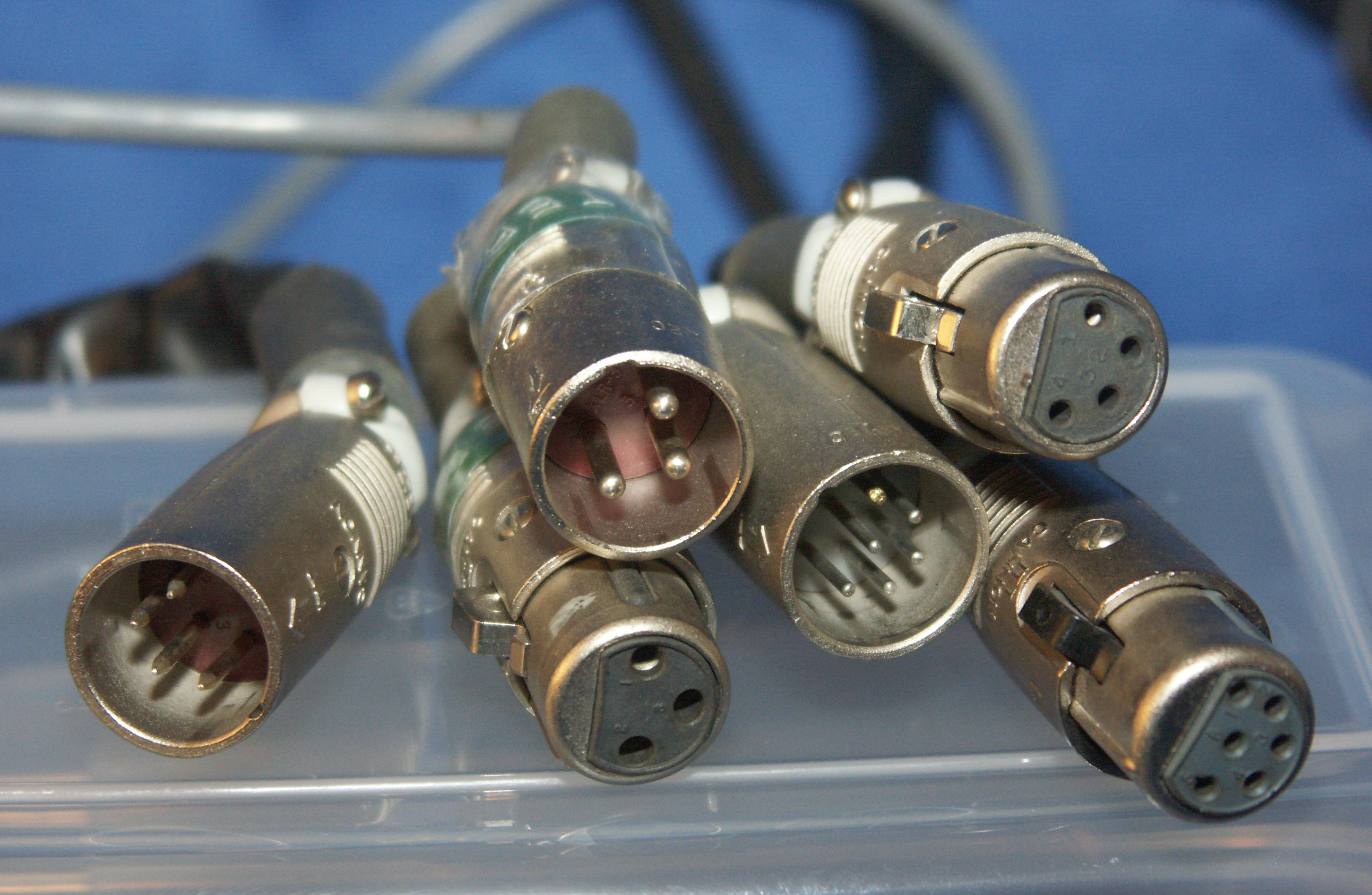 Group of XLR connectors